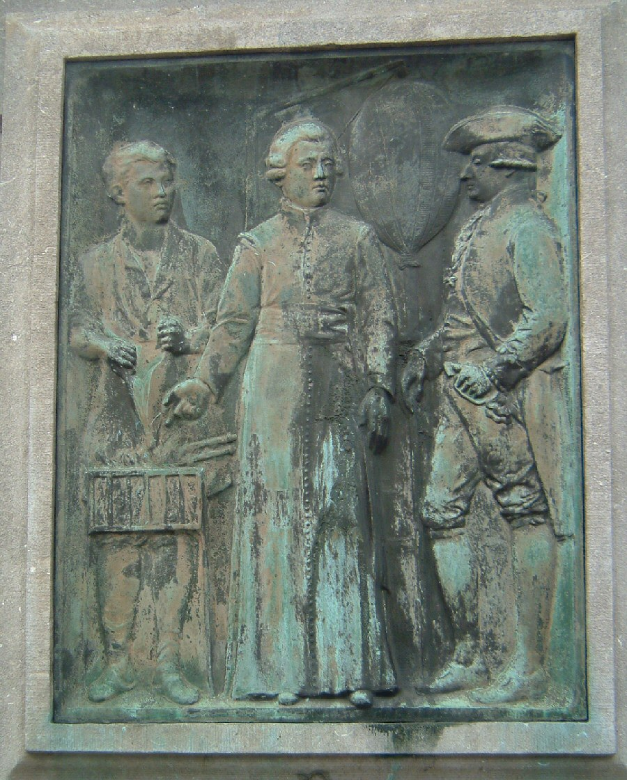 Bronze plaquette accompanying a statue of Jan Pieter Minckelers in Maastricht